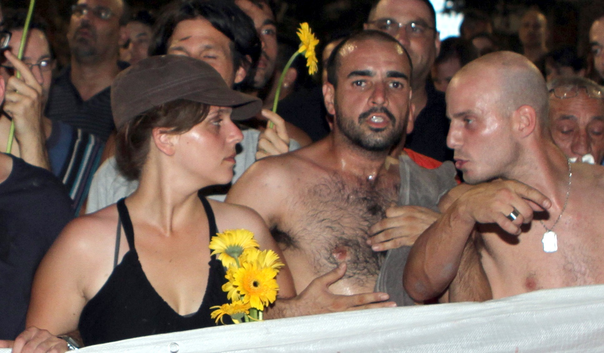 Daphni Leef protest against housing costs in Israel